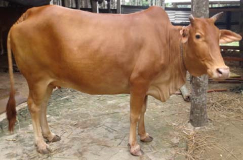 Red Chittagong cattle, Bangladesh (1)